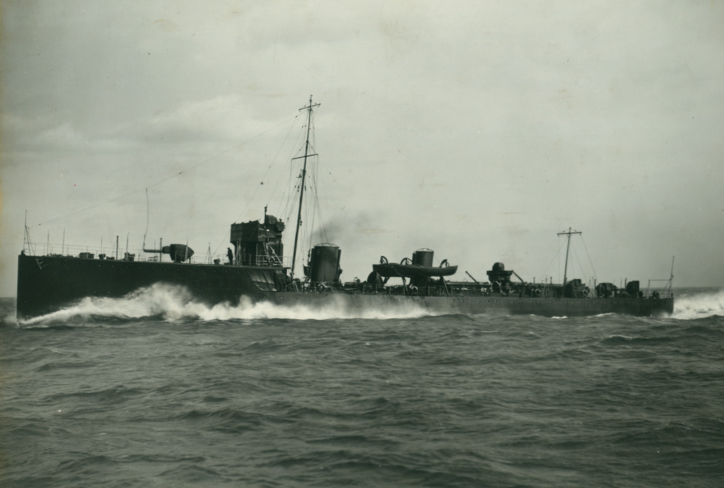 Port side view of an Acheron Class destroyer built by Hawthorn Leslie, c1912. It’s unclear whether the vessel is HMS Jackal or HMS Tigress. Both destroyers served during the First World War (TWAM ref. DS.HL/2/100/3). The shipyard of R. & W. Hawthorn Leslie at Hebburn built many fine warships. During the First World War the firm built 2 light cruisers, 3 destroyer leaders and 25 torpedo boat destroyers. The firm also built machinery and boilers for 2 battleships, and a further 3 light cruisers. These and other warships built by Hawthorn Leslie before the War, are remembered in this set. There are remarkable images of warships under construction at Hebburn, as well as fascinating shots of the people who attended the launches. The set also contains majestic views of the ships at sea. The images are not only a testimony to the skill of those who designed and built these ships but also to the courage of those who sailed in them. (Copyright) We're happy for you to share these digital images within the spirit of The Commons. Please cite 'Tyne & Wear Archives & Museums' when reusing. Certain restrictions on high quality reproductions and commercial use of the original physical version apply though; if you're unsure please